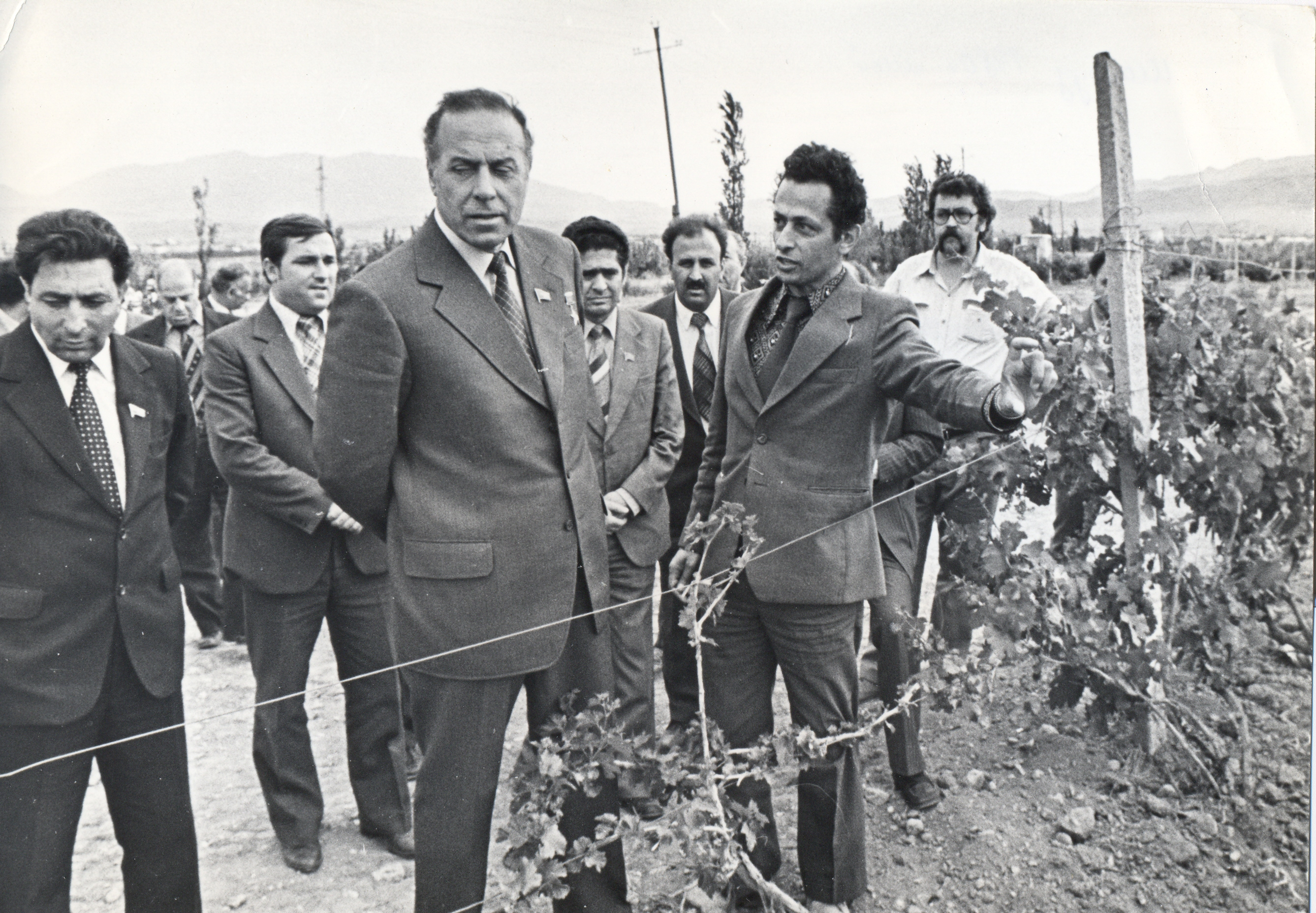 Гейдар Алиев в Нахичеване. Крайний справа - Владимир Морозков